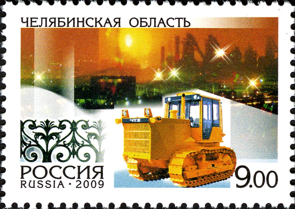 Russian Regions - Chelyabinsk Region